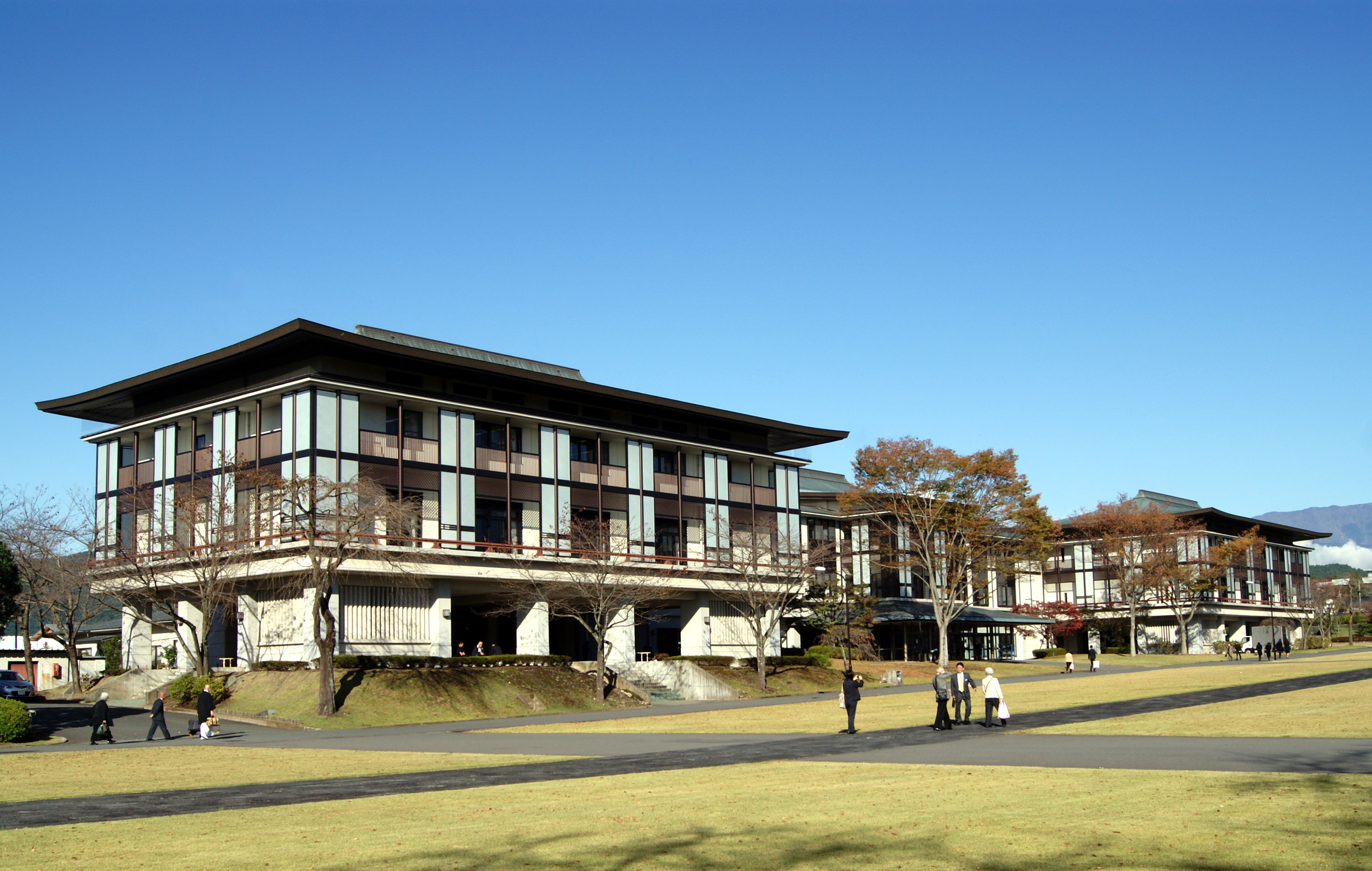 Sōni-bō of Taiseki-ji.